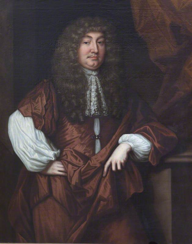 Portrait of Horatio Townshend, 1st Viscount Townshend (1630–1687).